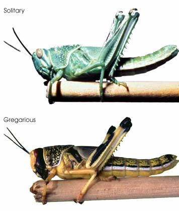 Desert Locust, CyrtacanthacridinaeWalon: potchas do dezert